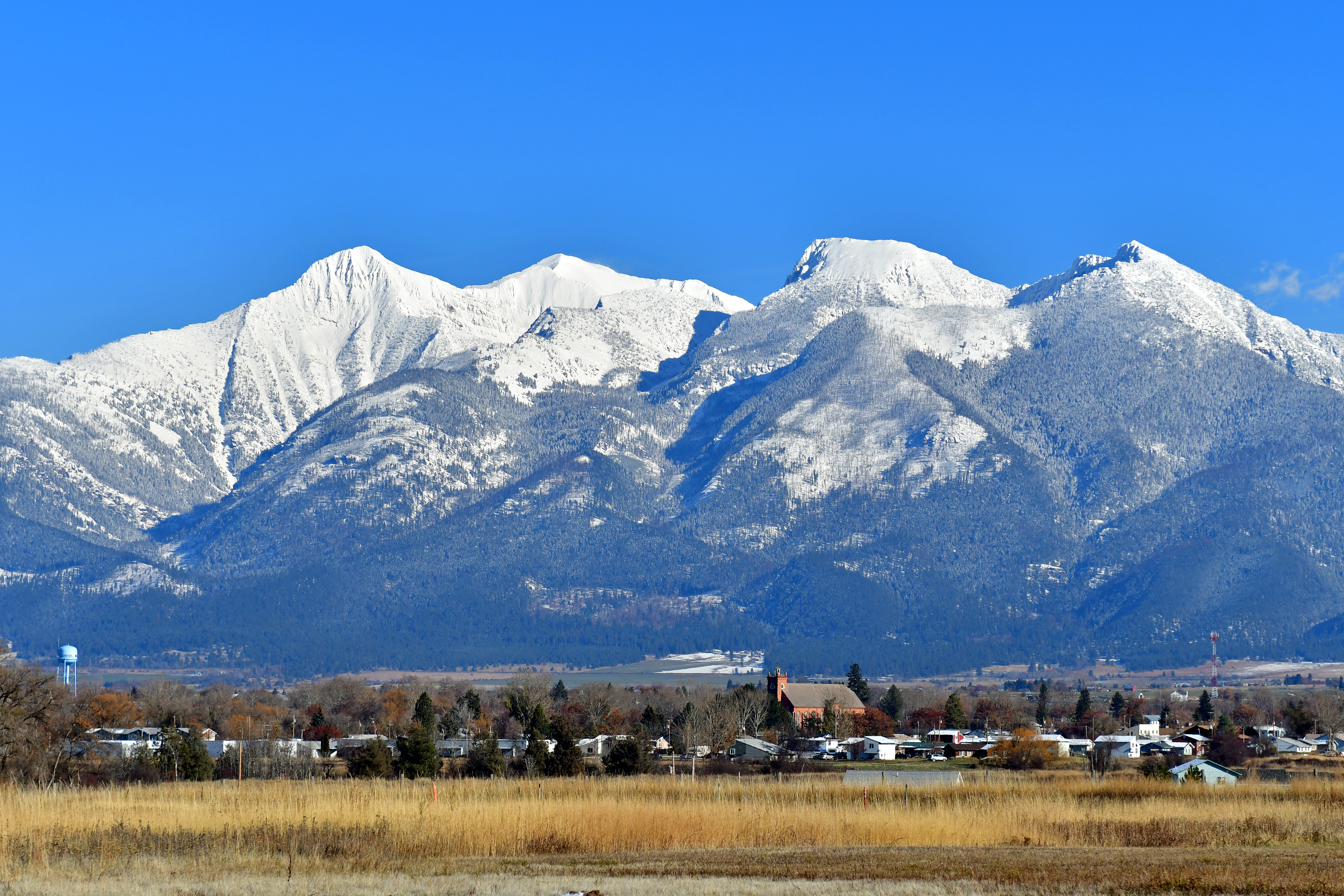 View on the town St. Ignatius in Montana with the brick St. Ignatius Mission; in the background: the Mission Range